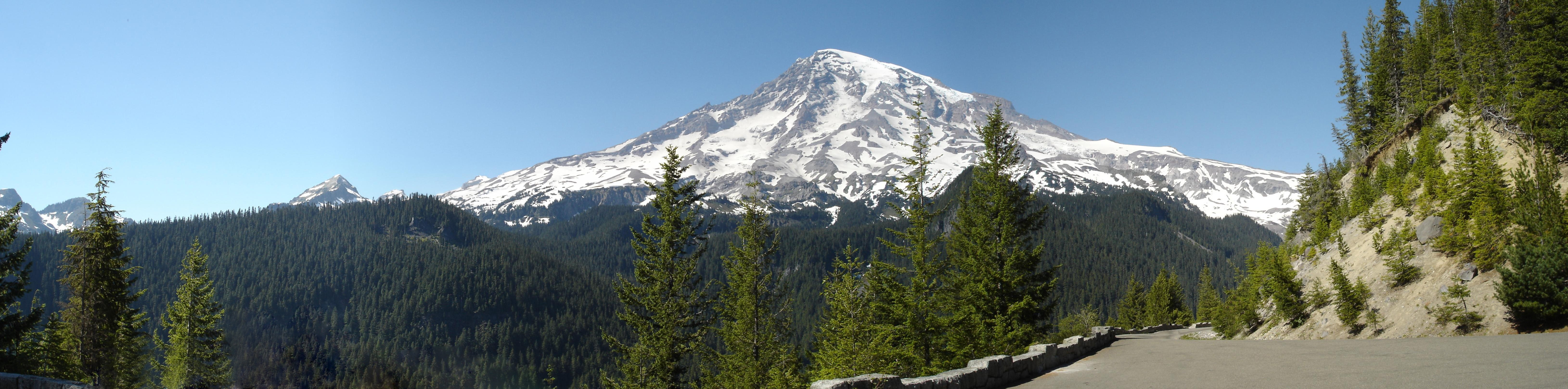 A panorama of Mount Rainier from Mount Rainier National Park